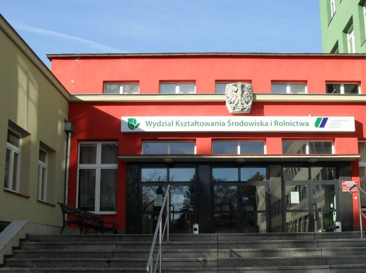 Faculty of Environment Managing and Agriculture